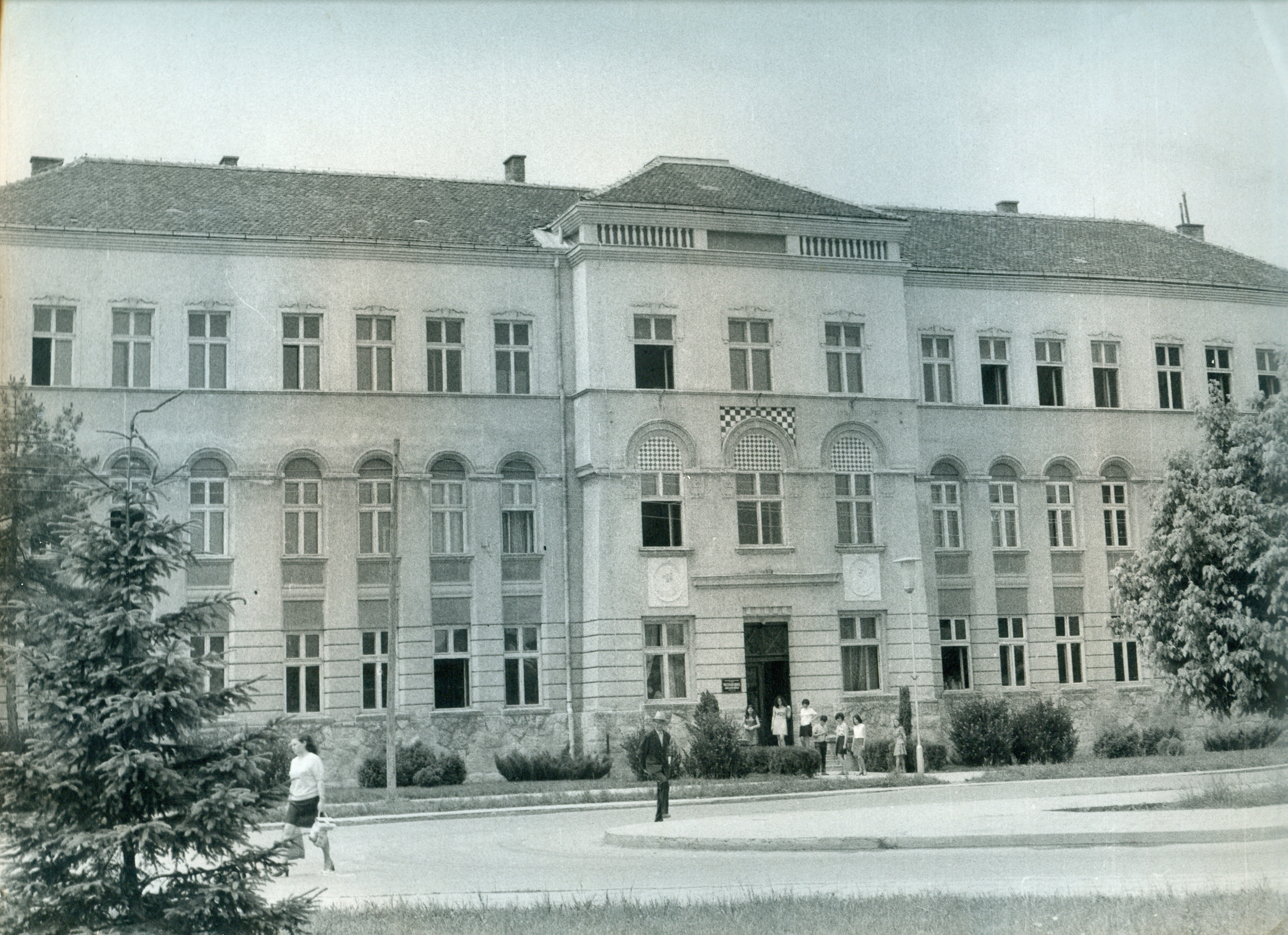 School for Teacher "Savo Dragojevic" in Negotin Srpski (latinica): Učiteljska škola "Savo Dragojević" u Negotinu